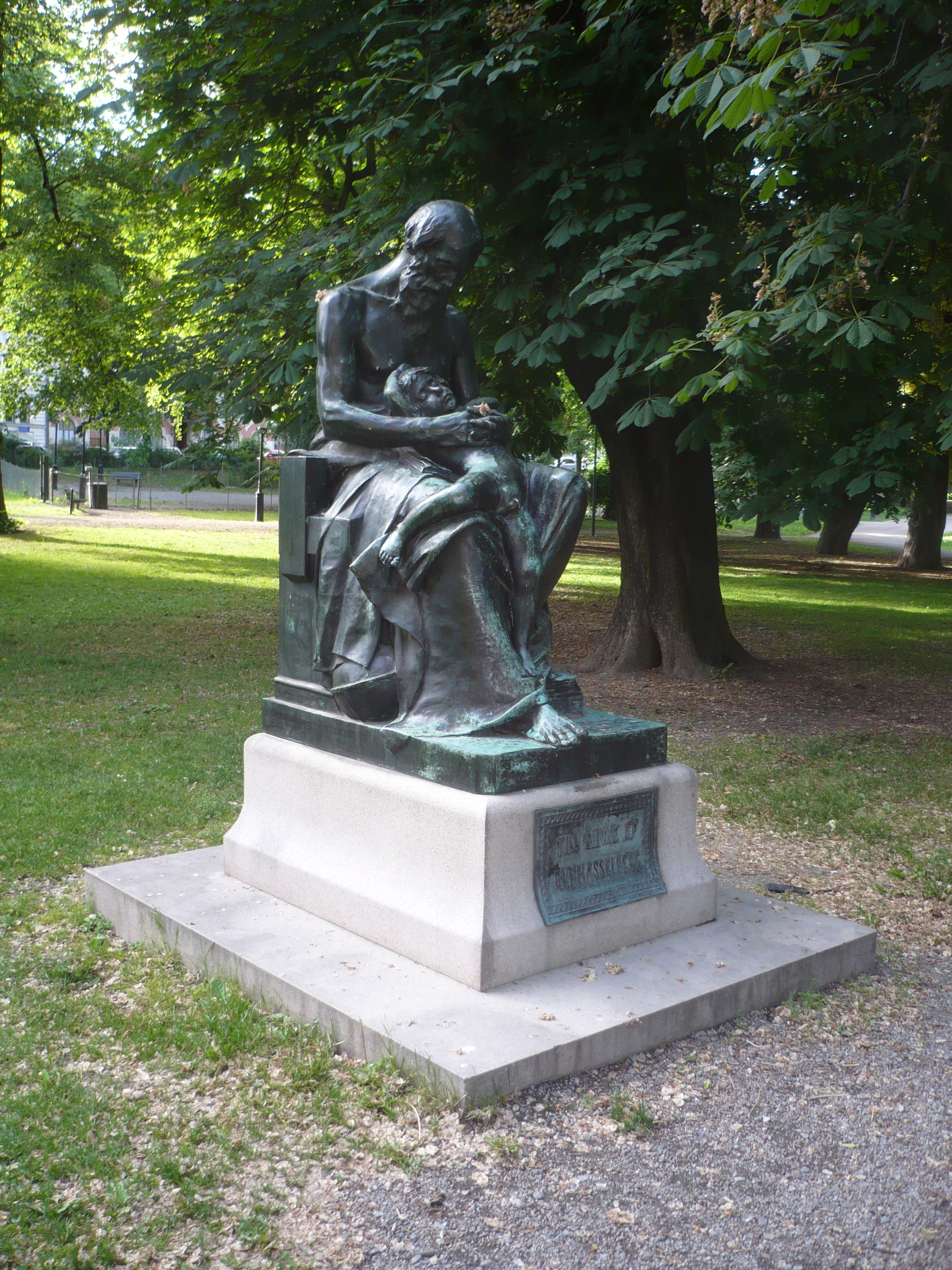 Picture of Farfadern by Per Hasselberg at Kungliga Biblioteket in Stockholm.